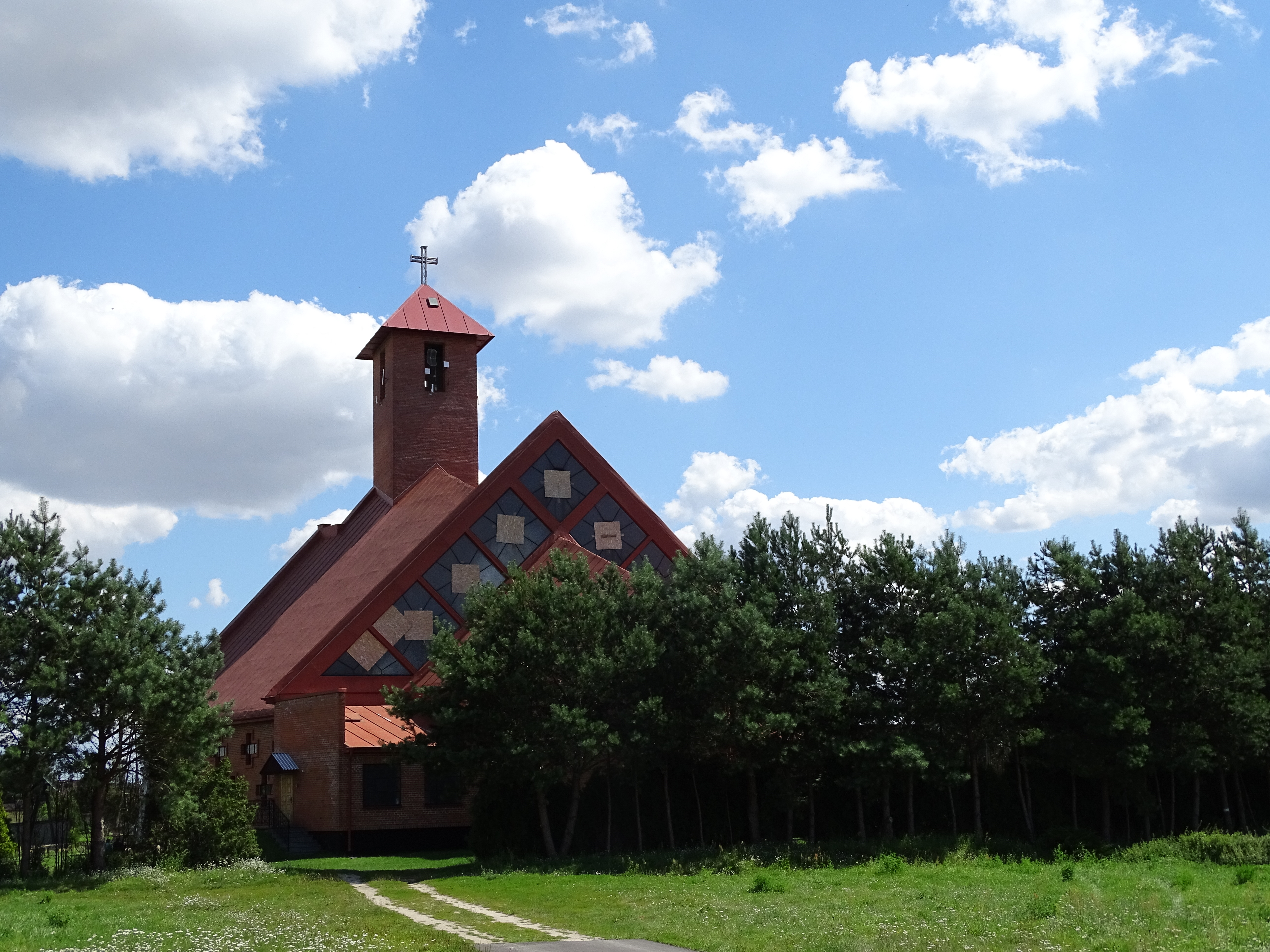 Topólka, Radziejów county, Poland. Parish church.